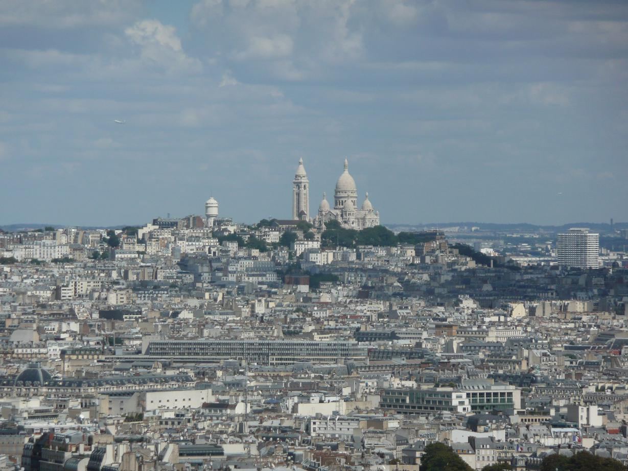 Paris from the Eiffel Tower